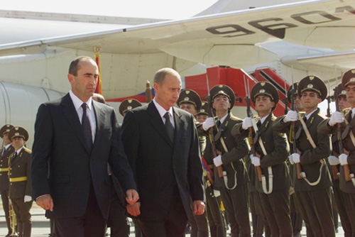 YEREVAN. Russian President Vladimir Putin and Armenian President Robert Kocharian inspecting the guard of honour at the Zvartnotz Airport.